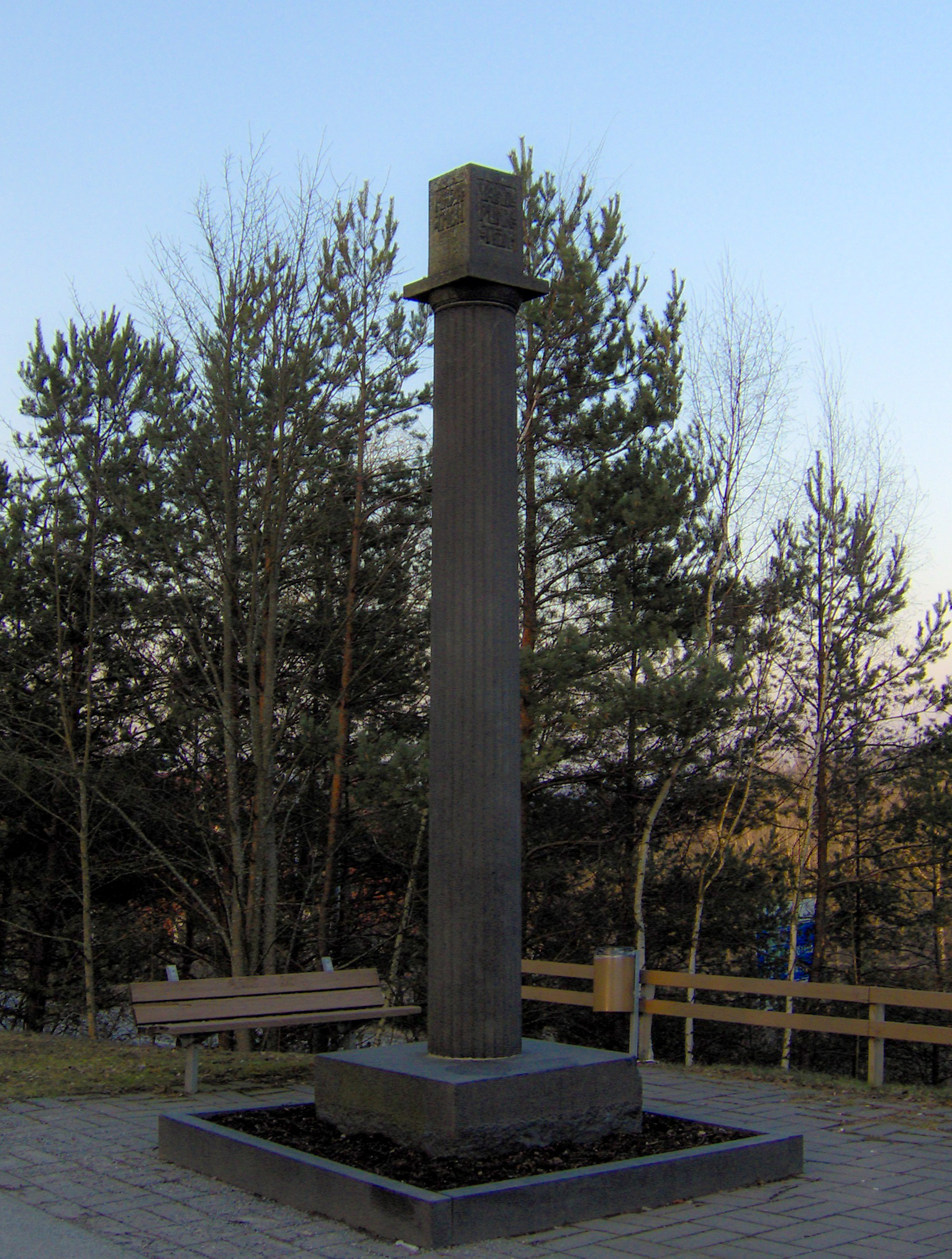 The turningpoint of 1912 olympic marathon.